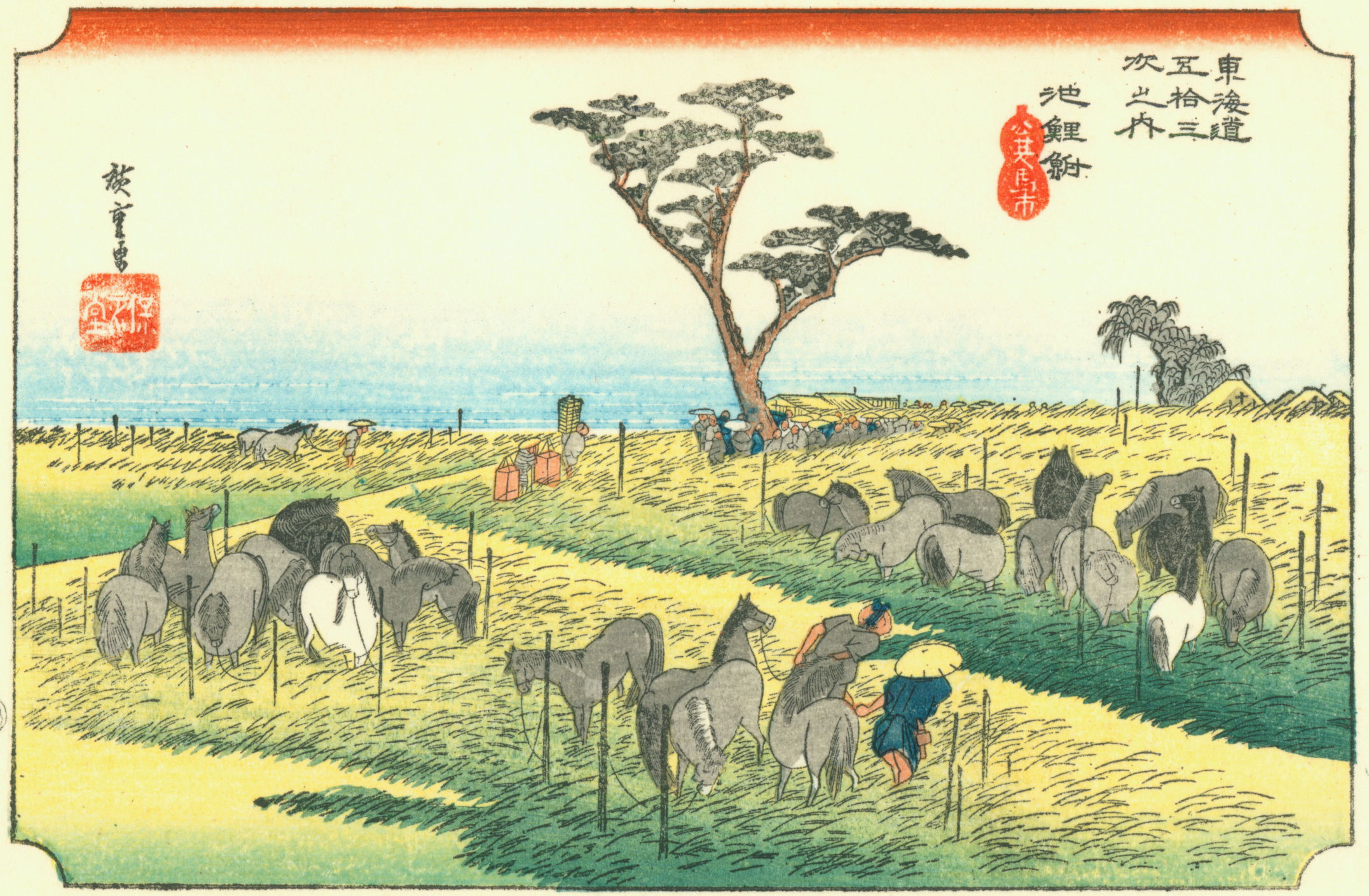 wood-block print, reproduction from a miniature edition by Takamizawa, Japan Title: Chirifu